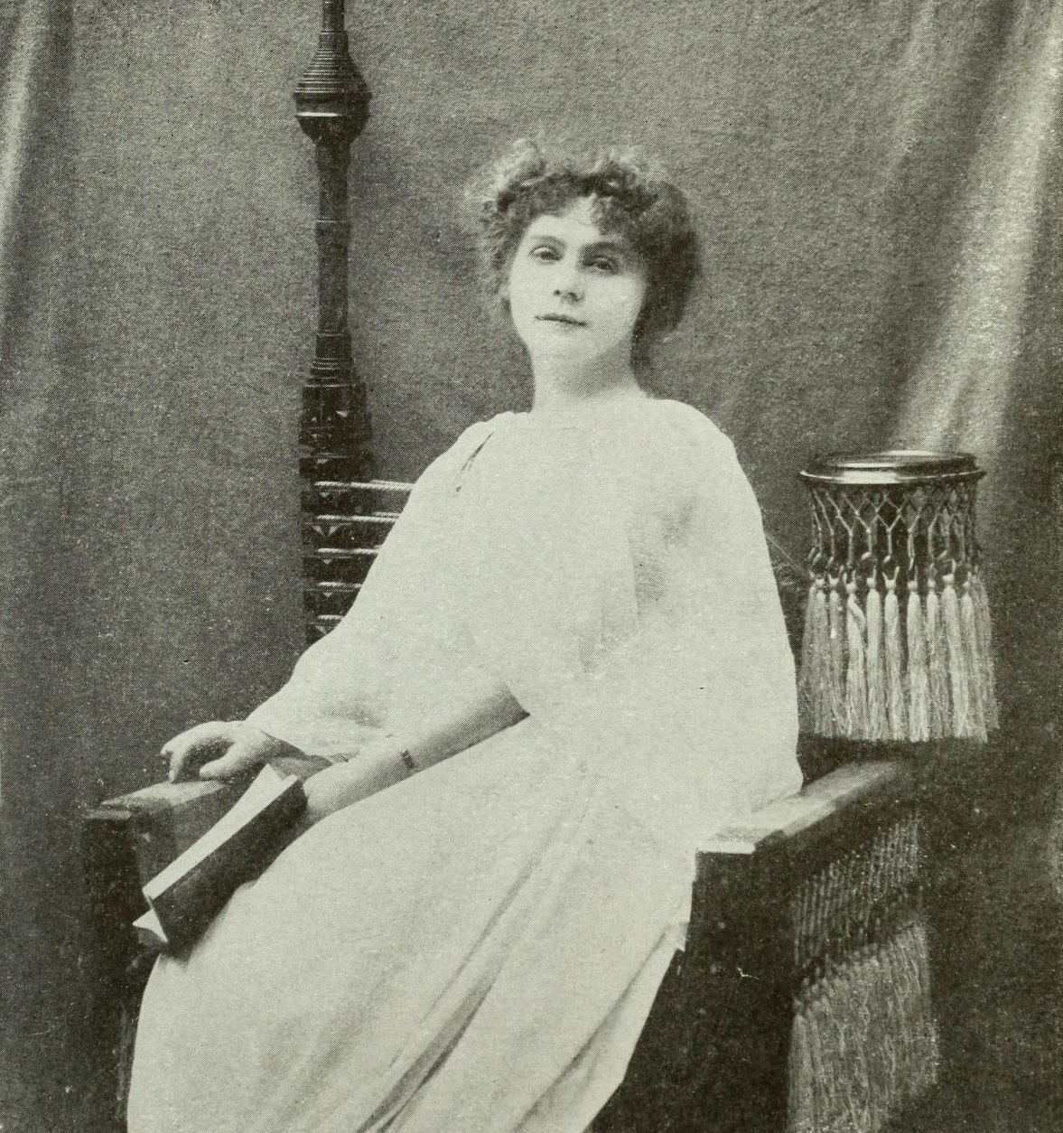 Marie Corelli